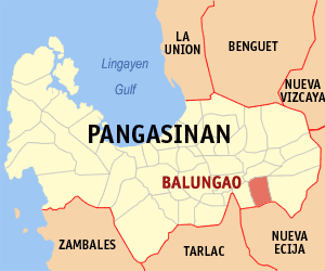 Map of Pangasinan showing the location of Balungao